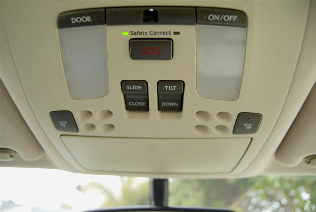 The 2010 Lexus IS 250 AWD - read the review at